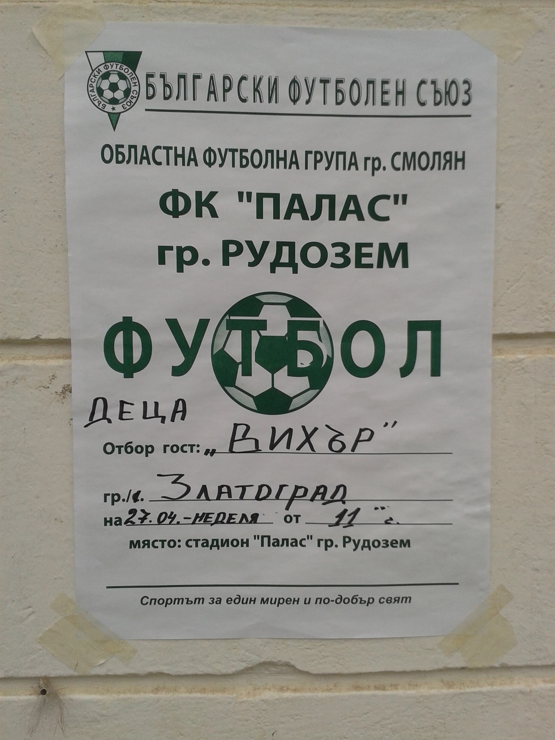 A poster of the football club in Rudozem "Palas".